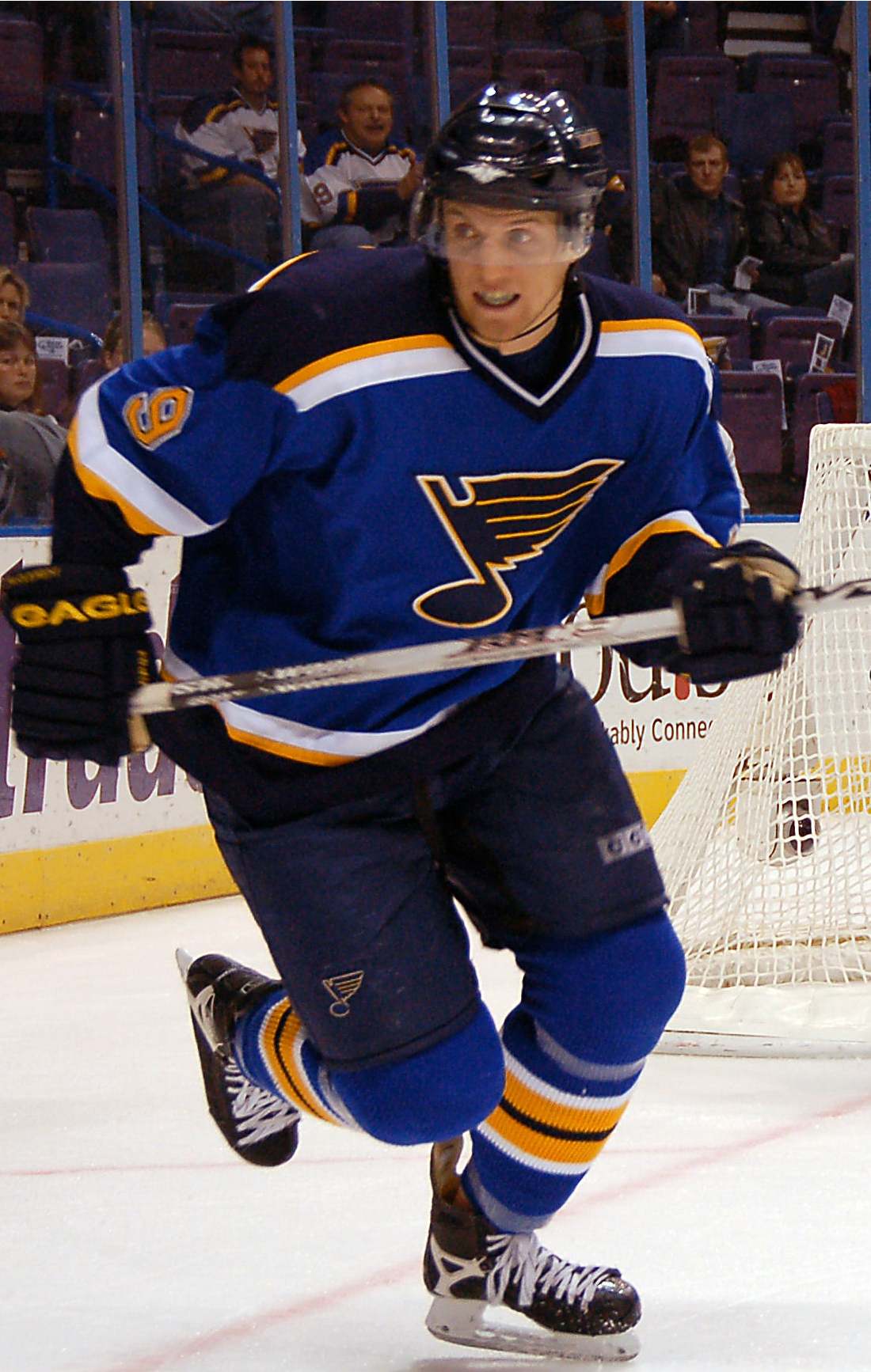 Jay McClement, playing ice hockey for the St. Louis Blues